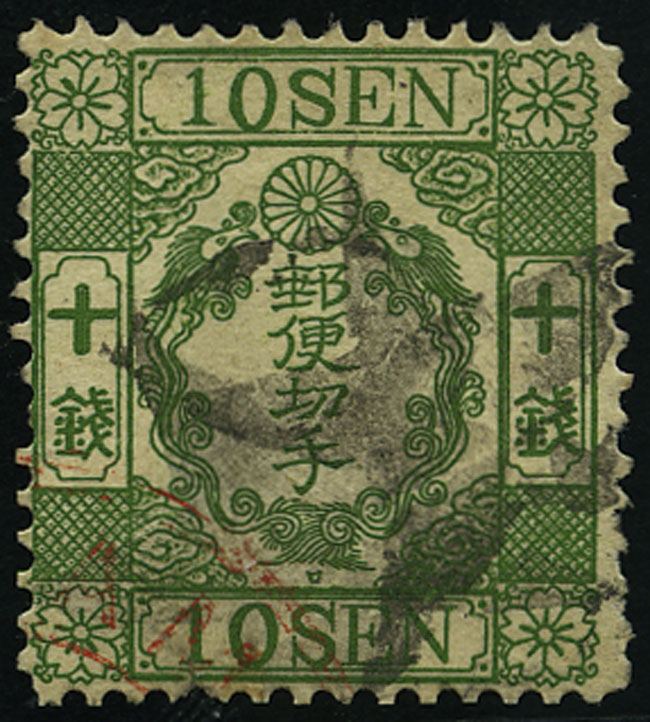 Stamp of Japan, coat of arms with dragons, 1872, 10 sen.